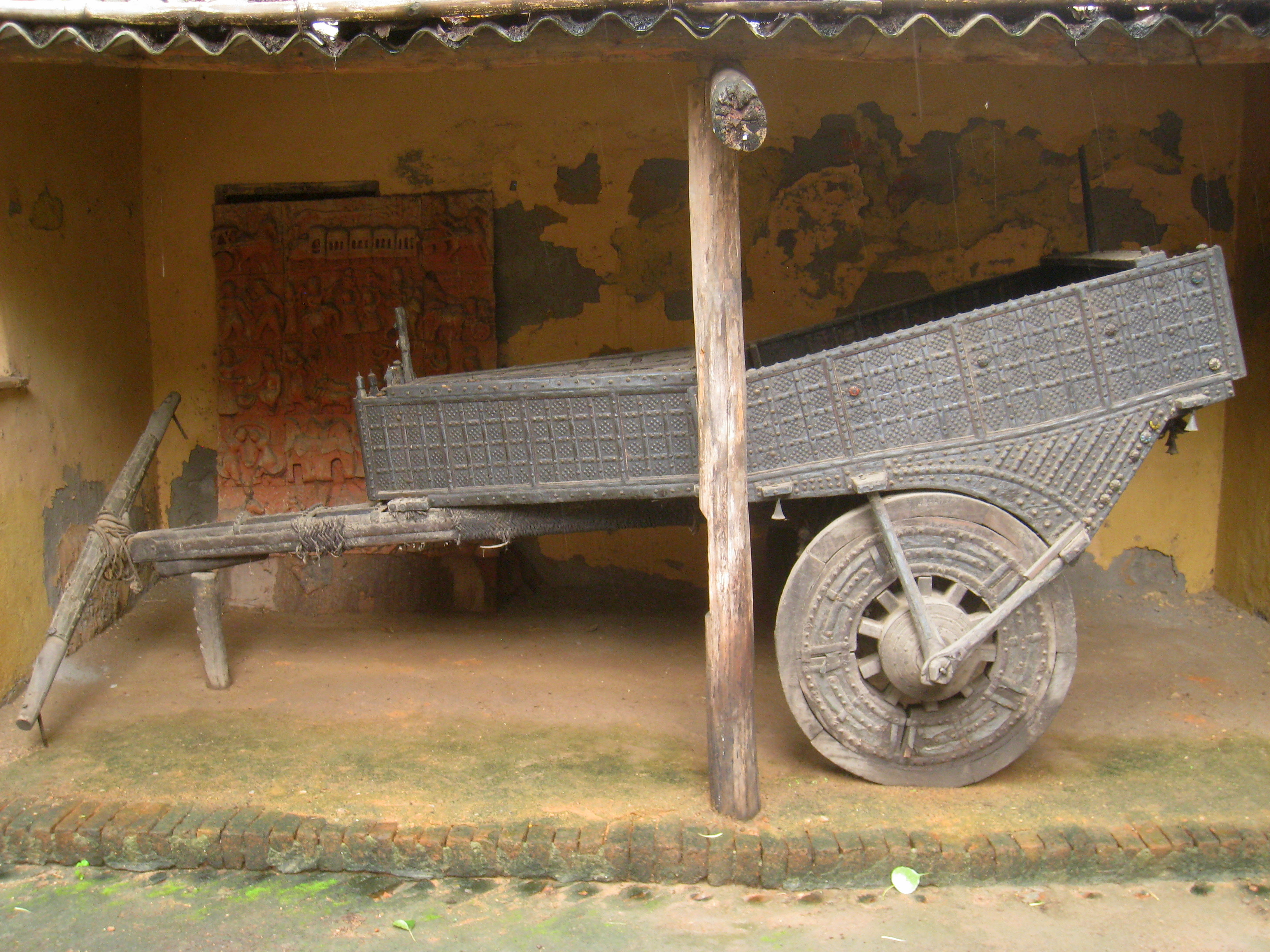 Village complex in Crafts Museum, New Delhi, India.